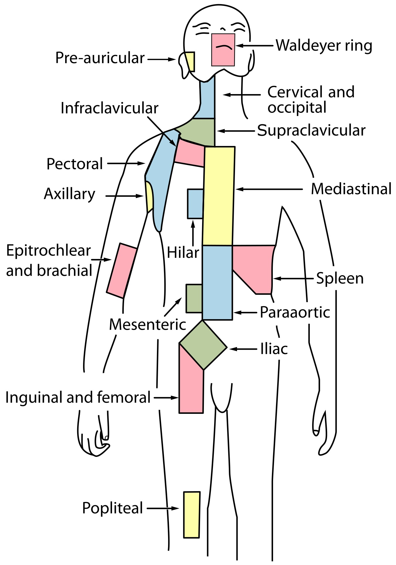 Ann Arbor Hodgkin's Lymphoma; Lymph Node Regions